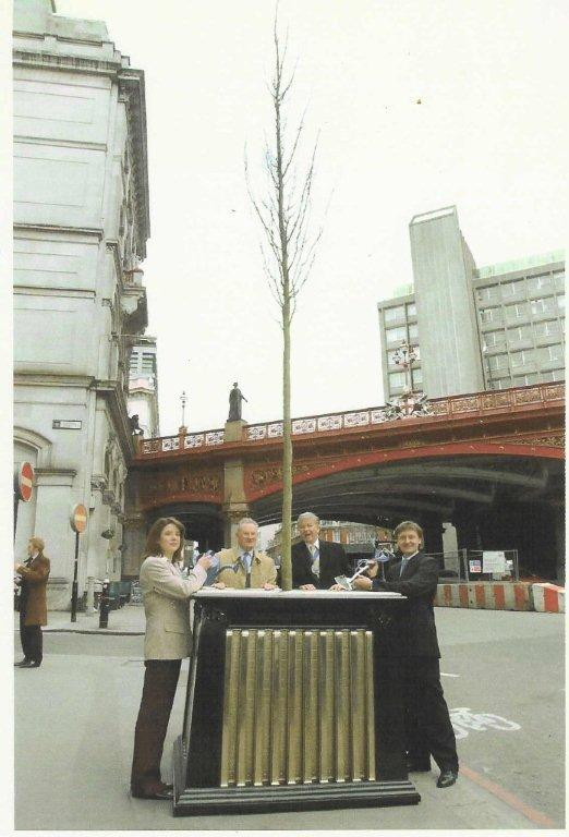 Tree Planter City of London by Mark Reed